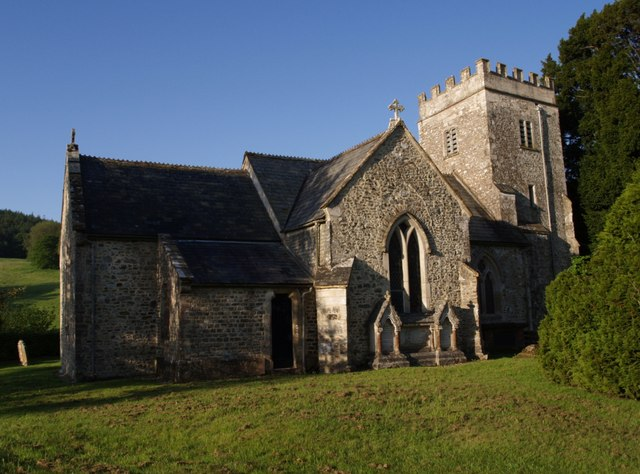 St Cuthbert's church, Widworthy. Another view of 290349, showing the north side of the church in morning sunlight.